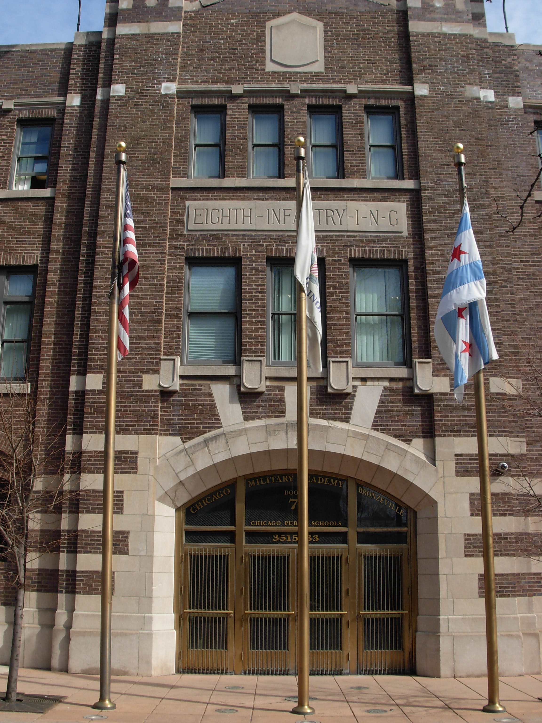 Entrance to Bronzeville military academy (Chicago Military Academy at Bronzeville), 8th Regiment armory